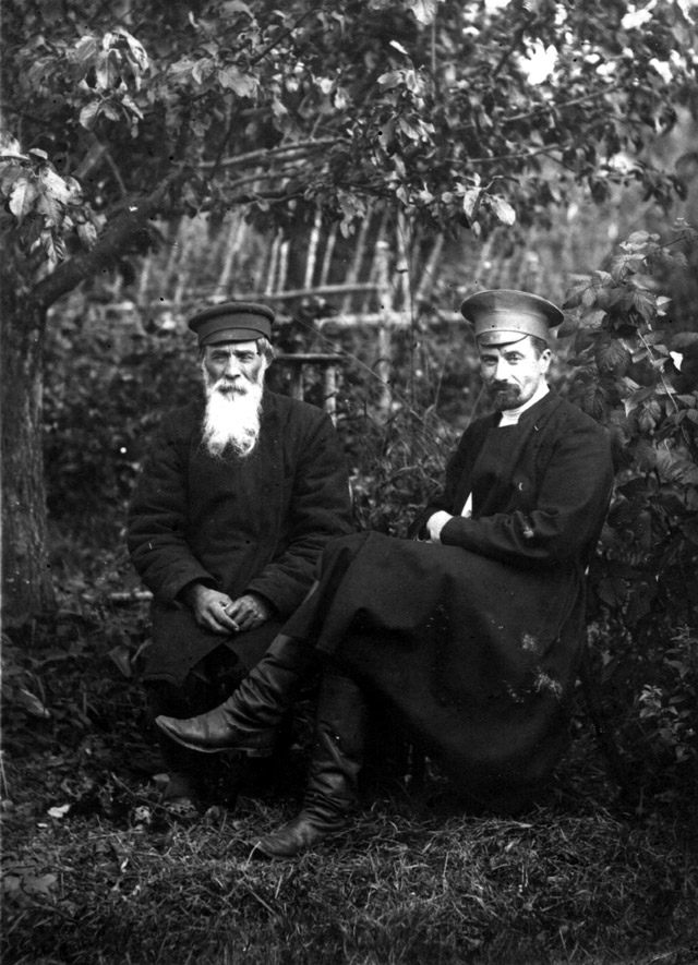 Mikhail Petrov and Boris Obninskiy, early XX century